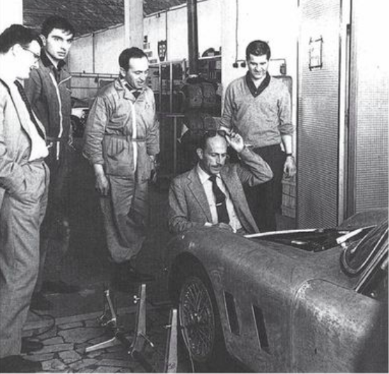 Niccolò De Nora sitting with the ASA 1000 GTC in 1963. Giotto Bizzarini perhaps to the right. The rest are mechanics and engineers with ASA.